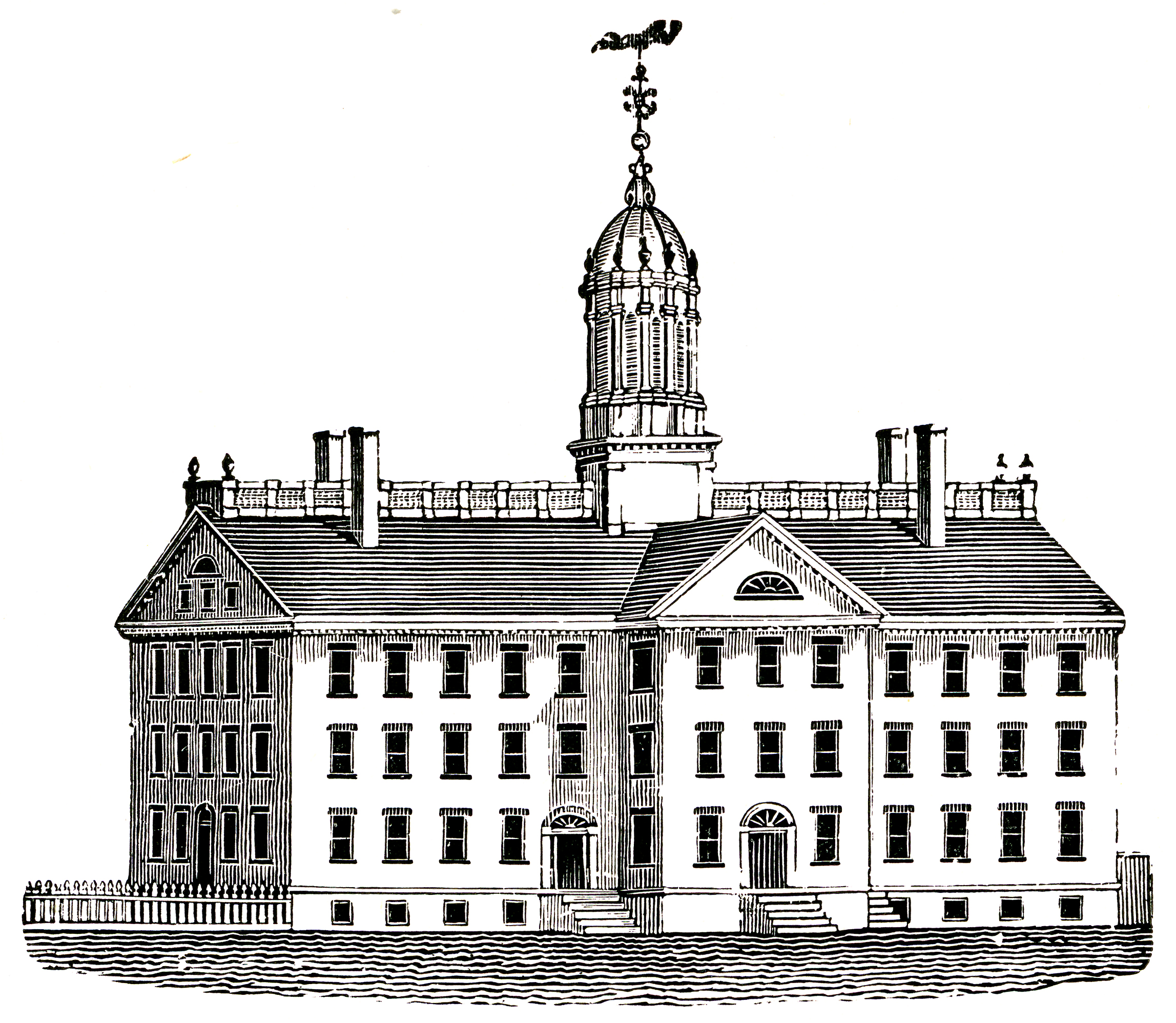 Engraving of Union College in 1804